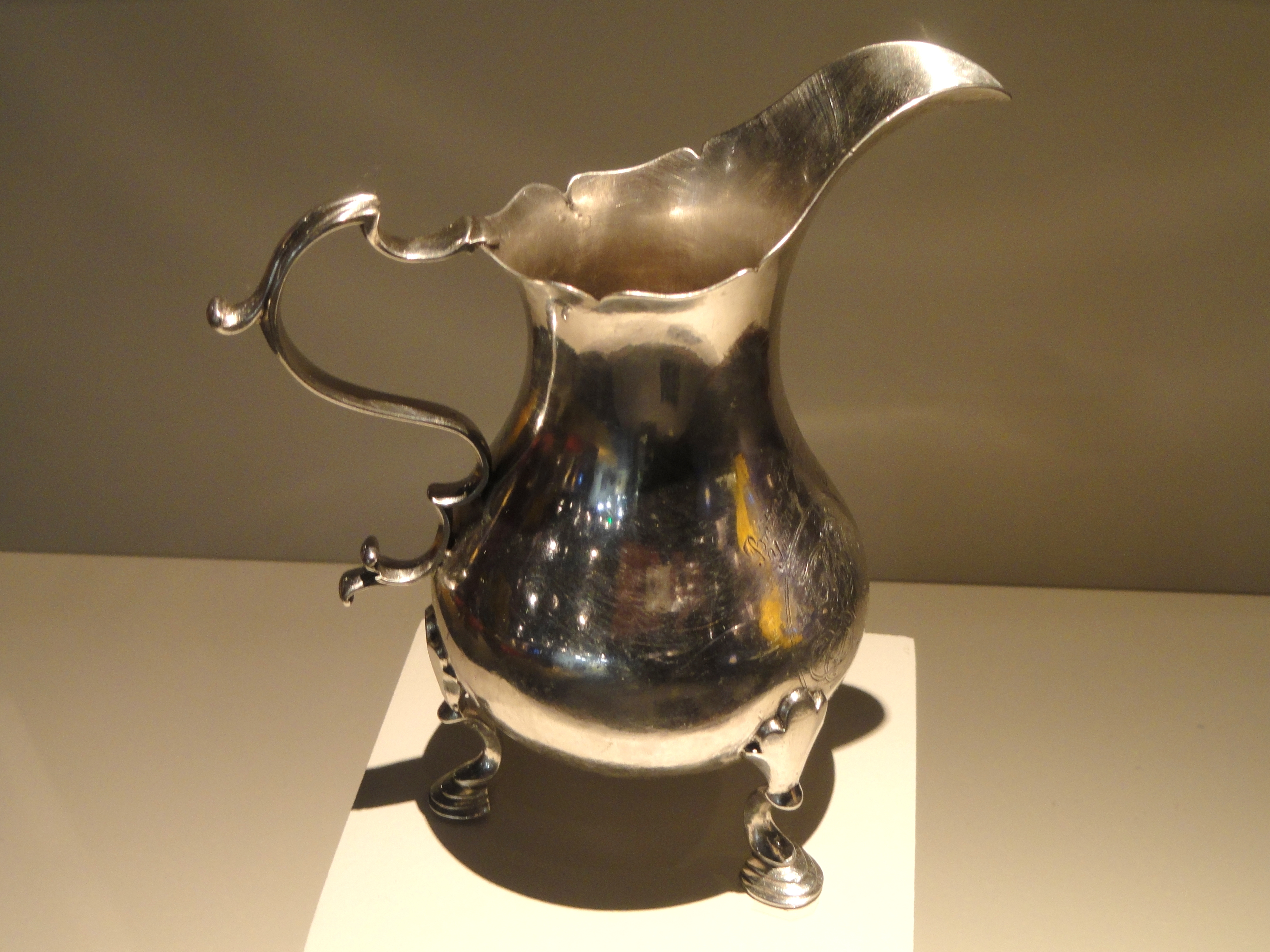 Exhibit in the National Museum of American History, Washington, DC, USA. This item is in the public domain because it is property of the national museum.